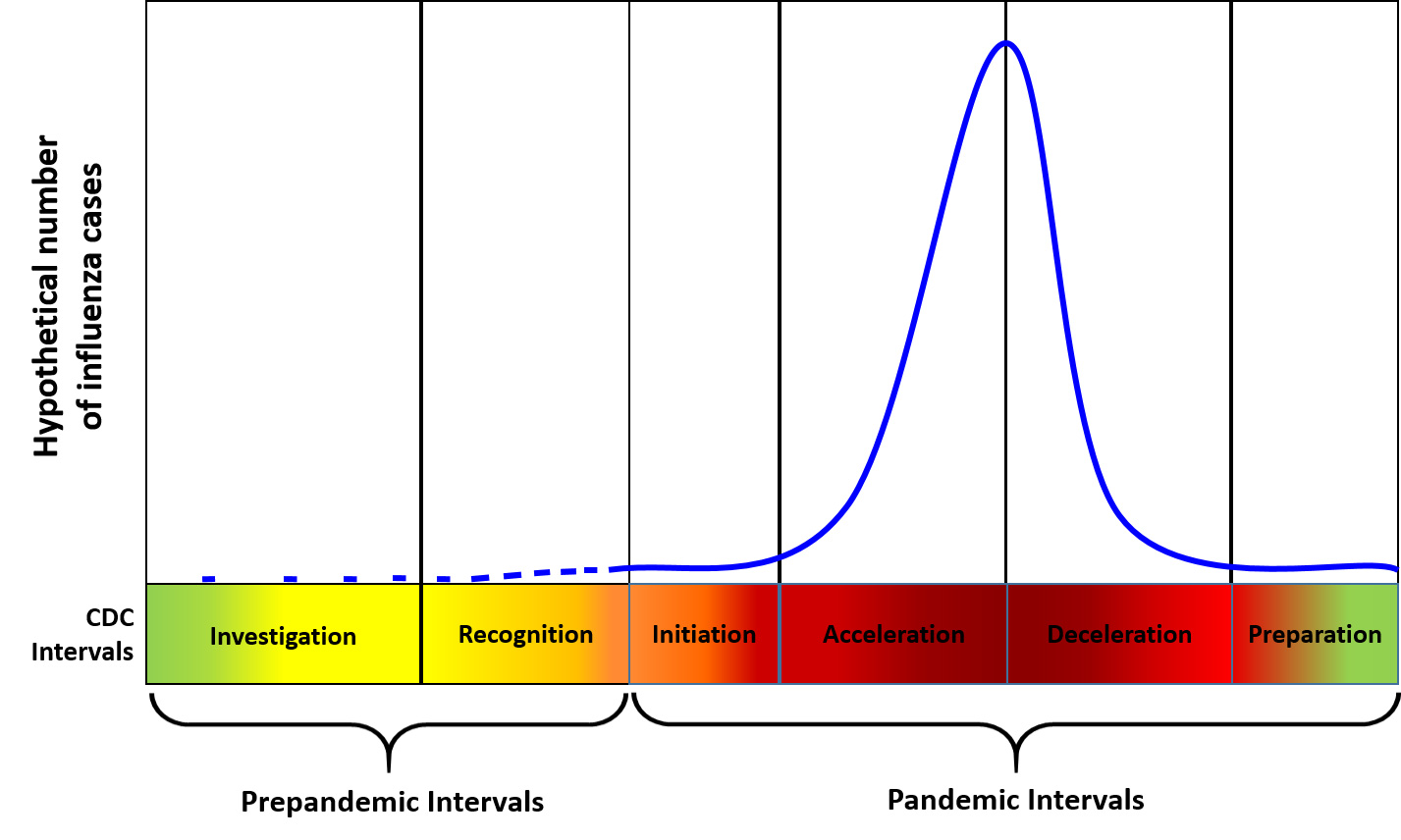 This figure shows a distribution curve of the hypothetical number of pandemic influenza cases across the six CDC intervals to the preparedness and response framework for novel influenza A virus pandemics. From left to right, the first two pre-pandemic intervals include “investigation” and “recognition.” During “investigation” and “recognition” intervals, the curve is flat, showing zero or low numbers of hypothetical pandemic influenza cases. Following the “recognition” interval are the four pandemic intervals – “initiation,” “acceleration,” “deceleration” and “preparation.” Within the pandemic intervals, the hypothetical number of influenza cases are normally distributed, where the greatest number of cases are located between the “acceleration” and “deceleration” intervals. From “initiation” to “acceleration,” the distribution curve of the hypothetical number of influenza cases greatly increases, showing the greatest number of hypothetical influenza cases at the end of the “acceleration” interval. From “deceleration” and ending with “preparation,” the hypothetical number of influenza cases greatly decreases, bringing the number of hypothetical influenza cases close to zero.